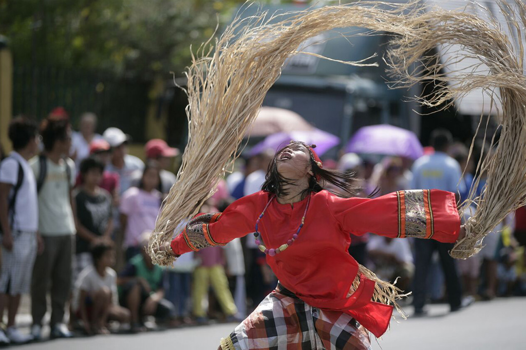 Babaylan Festival in Bago City